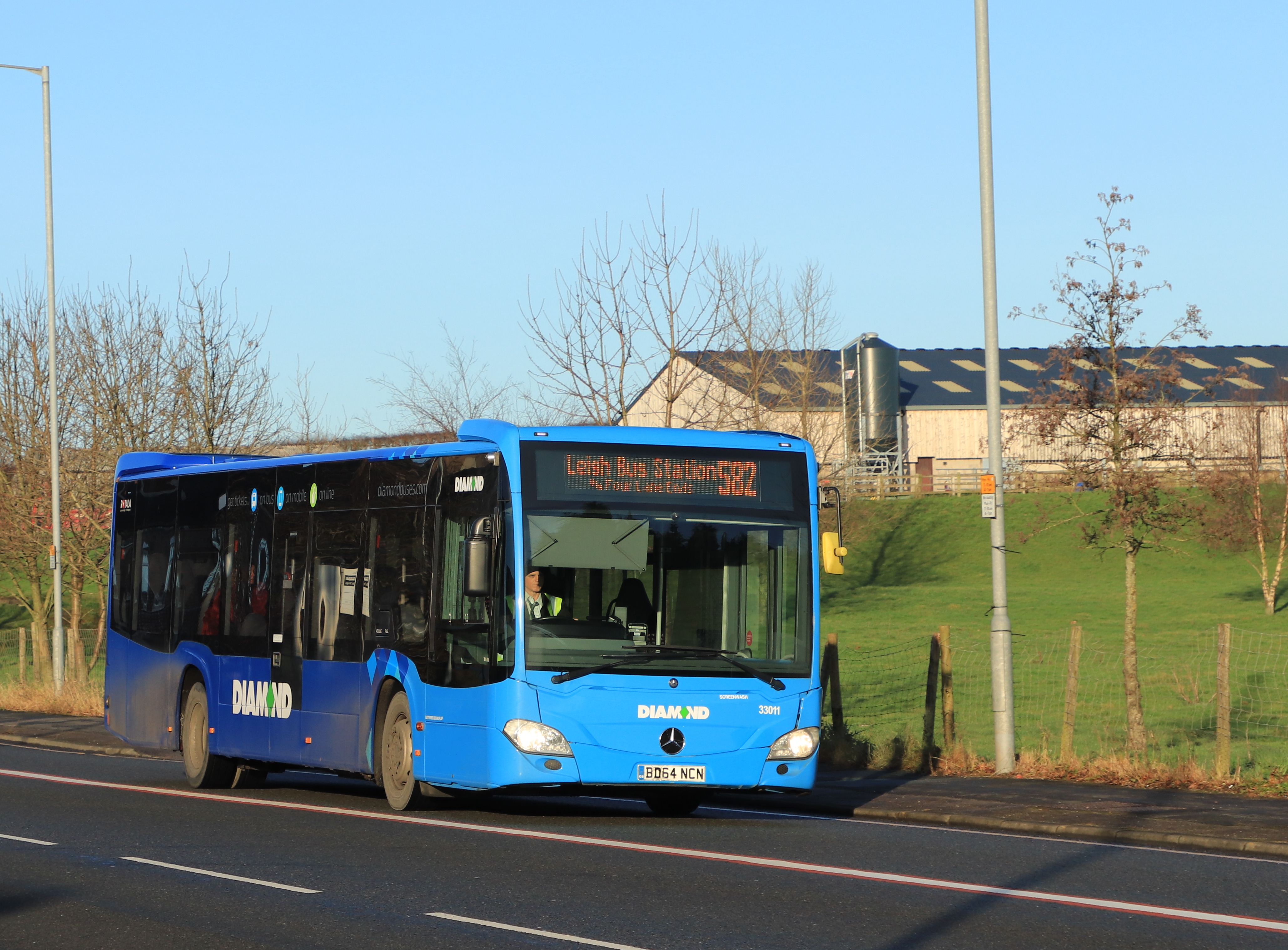 A Diamond Bus Citaro C2, new to YourBus.